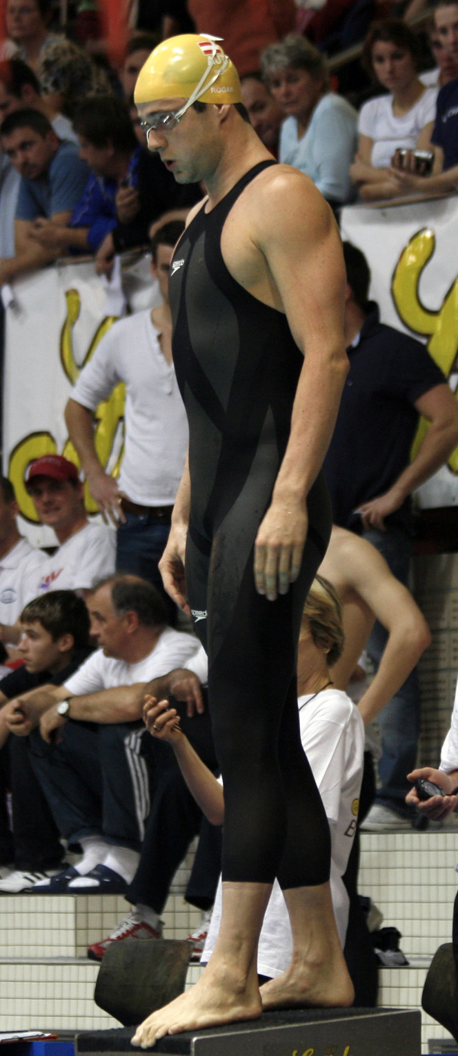 Swimmer Markus Rogan at the 35th Ströck-Austrian Qualifying 2008 at the Wiener Stadthalle.